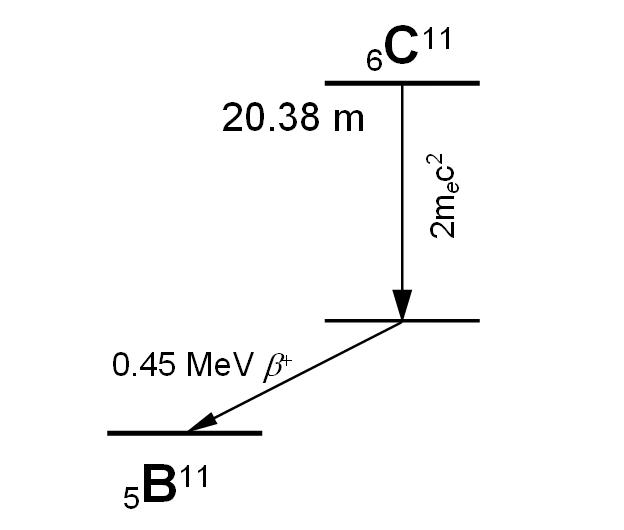 Own work